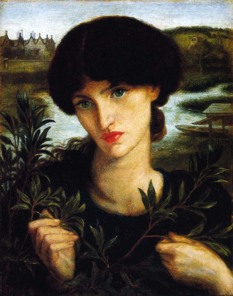 Water Willow, an 1871 portrait of Jane Morris in the landscape near Kelmscott Manor which appears in the left background. Oil on canvas glued to wood. The painting was retouched in 1893 by Fairfax Murray.